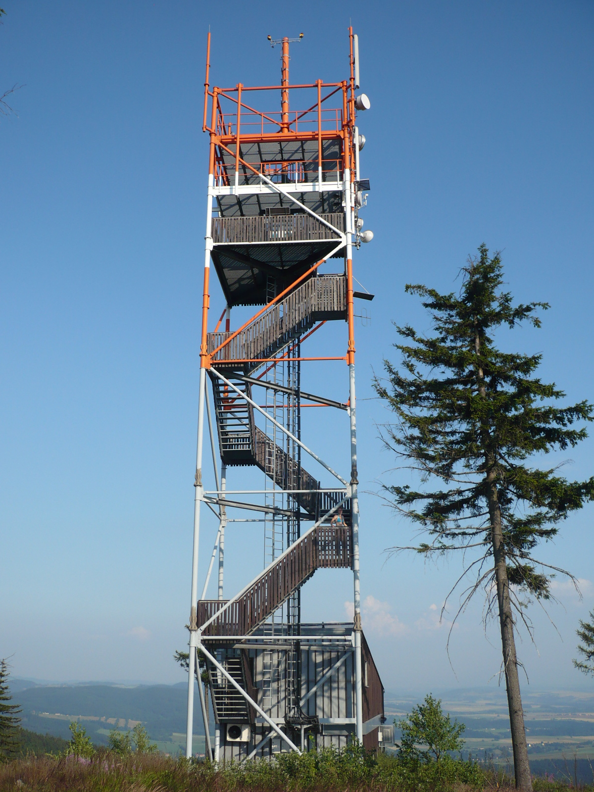 observation tower Ruprechticky Spicak, near Mezimesti, Czech Republic